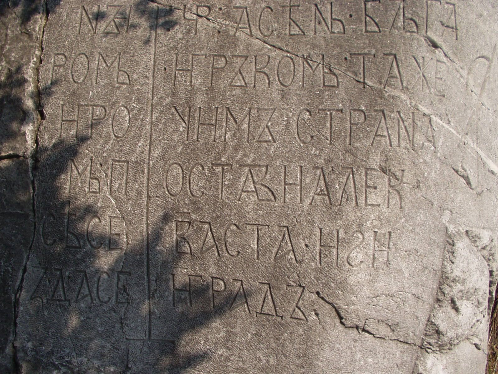 Tzar Ivan Asen's II inscription at the Asenova fortress, Bulgaria